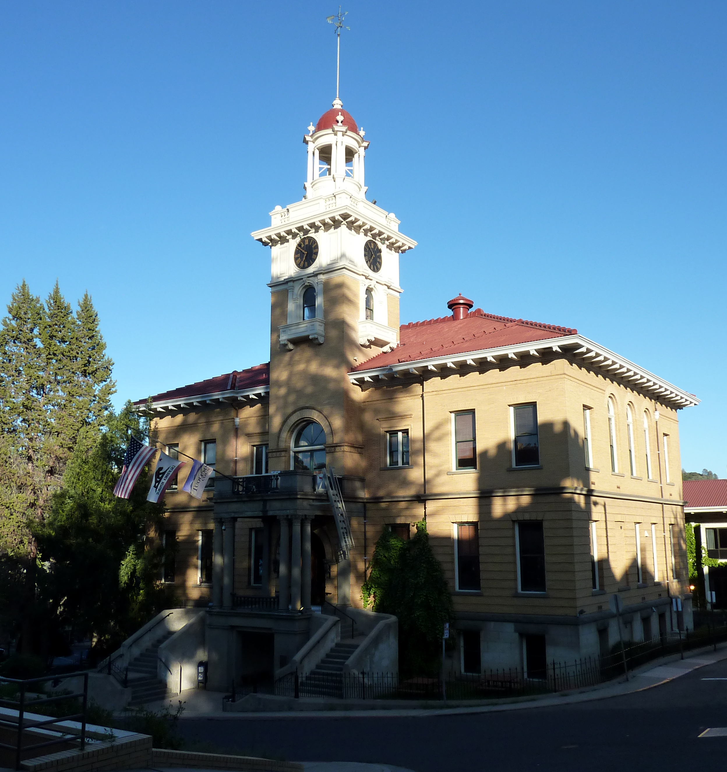 Tuolumne County Courthouse, Sonora, California, USA.